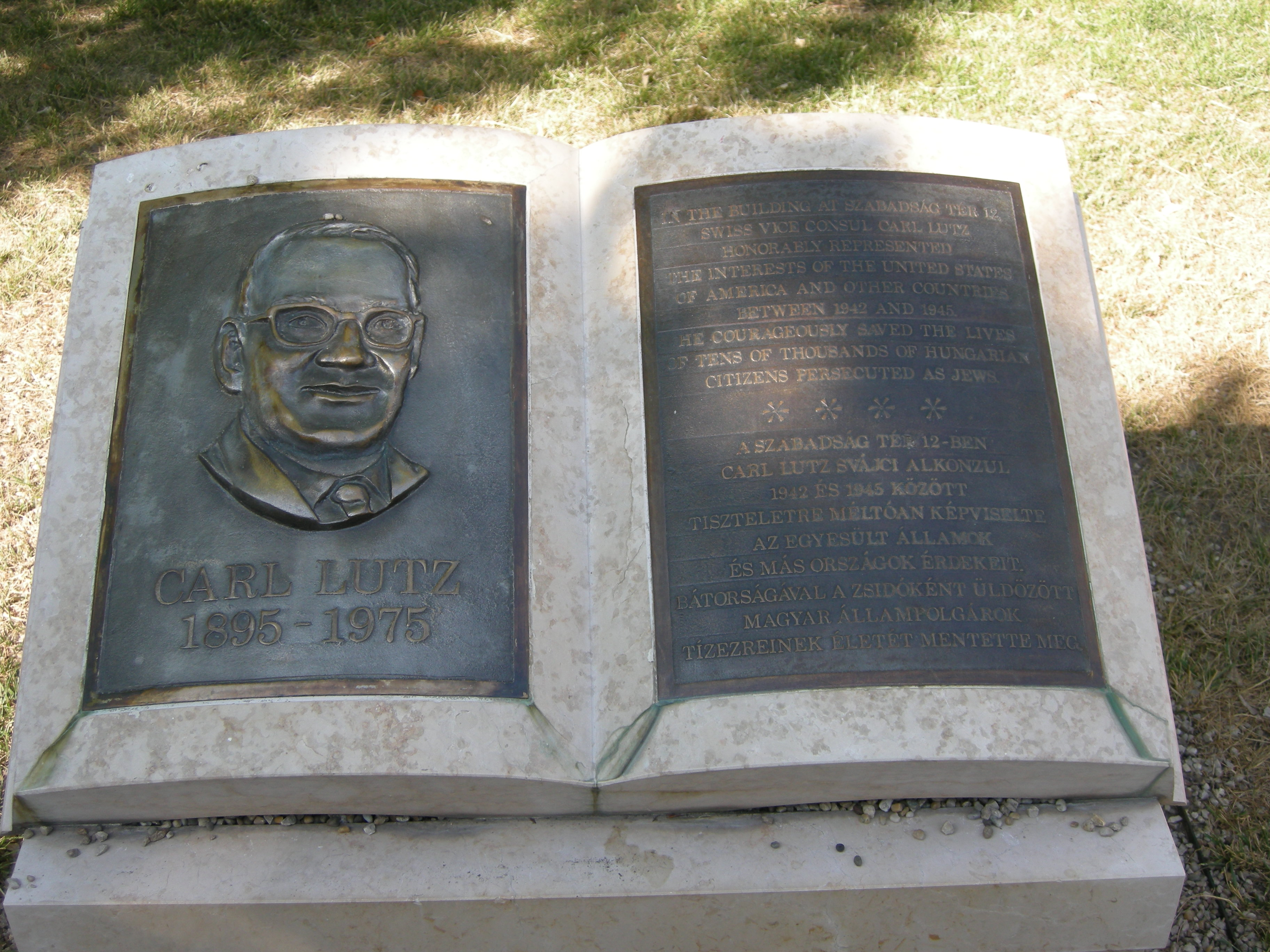 Monuments and s inCarl Lutz memorial. A bronze relief with English inscriptions (2006). - Szabadság Square, Budapest District V.